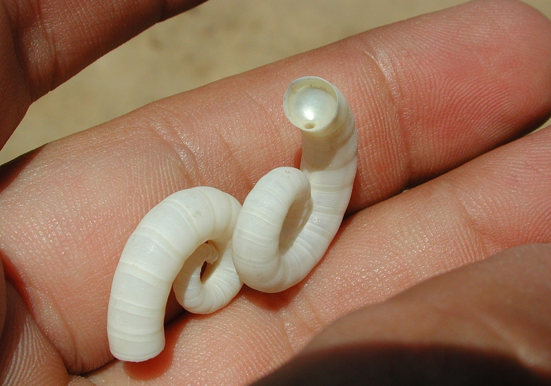 Spirula spirula, Mission Beach, National Park, Queensland, Australia, 2002